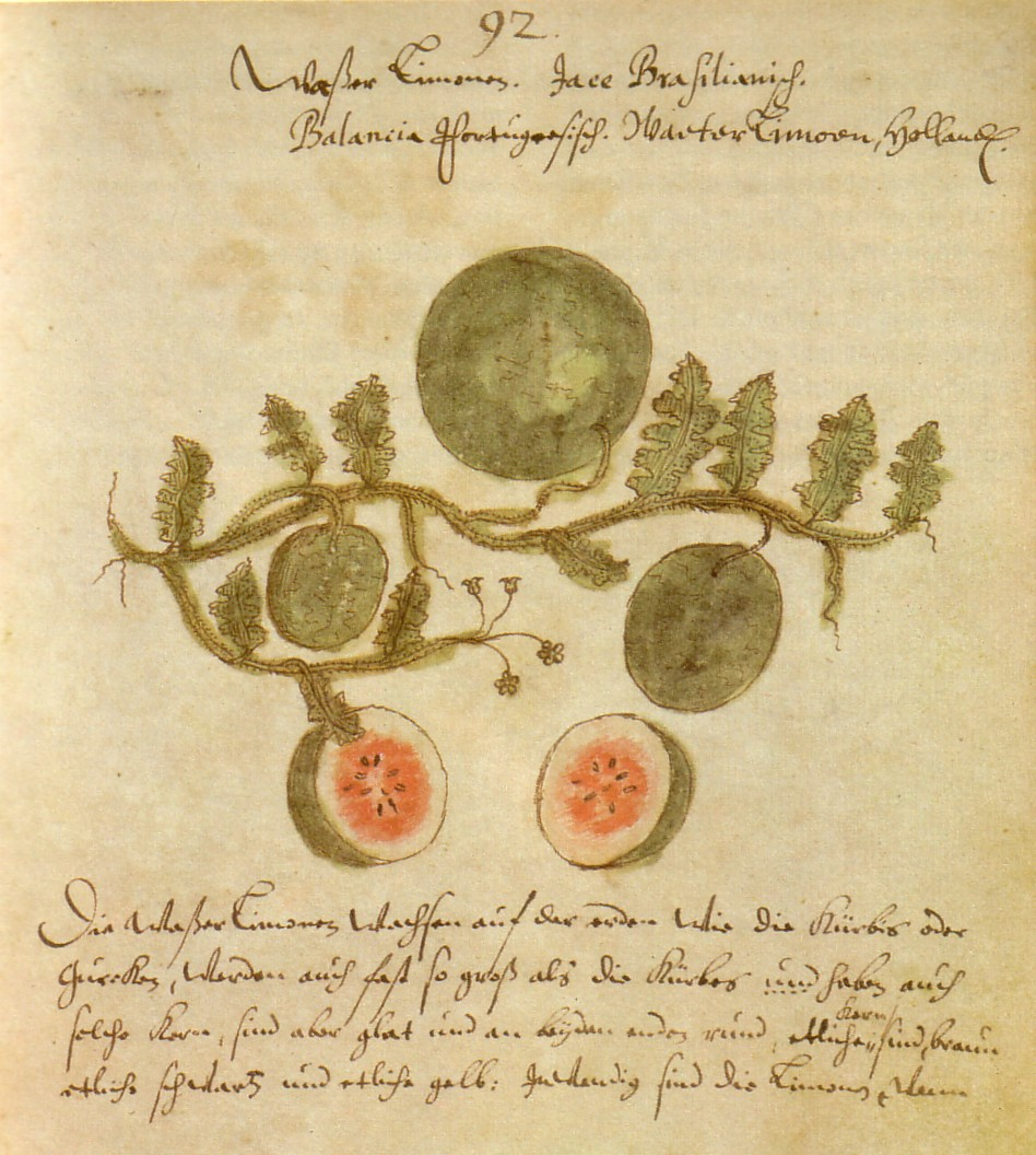 colored drawing by Caspar Schmalkalden (c.1618-c.1668)